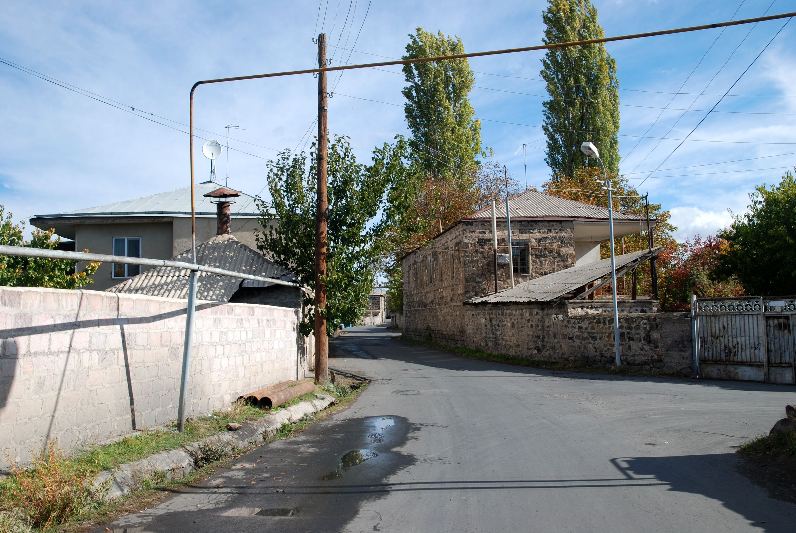 Yeghvard, center near church